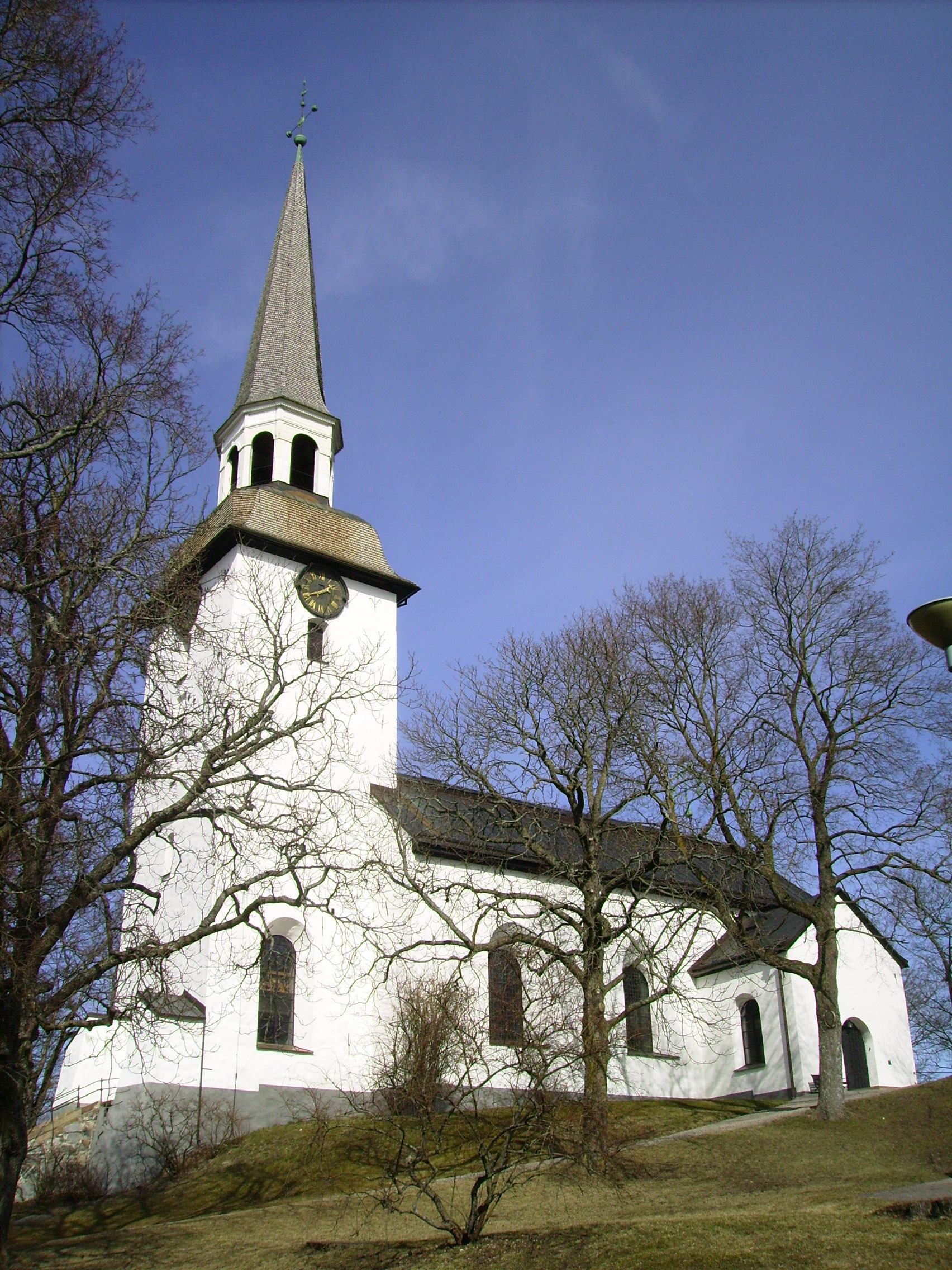 Picture of the church in Mariefred, march 2009.